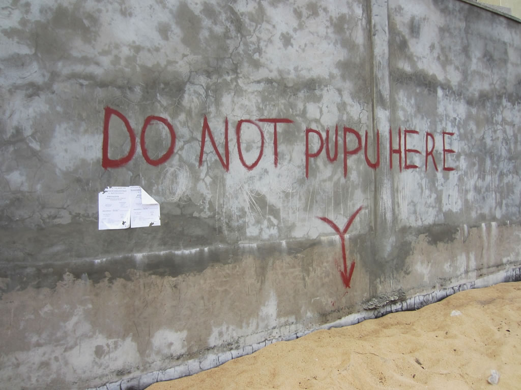 The public is requested to keep Monrovia's beaches clean.